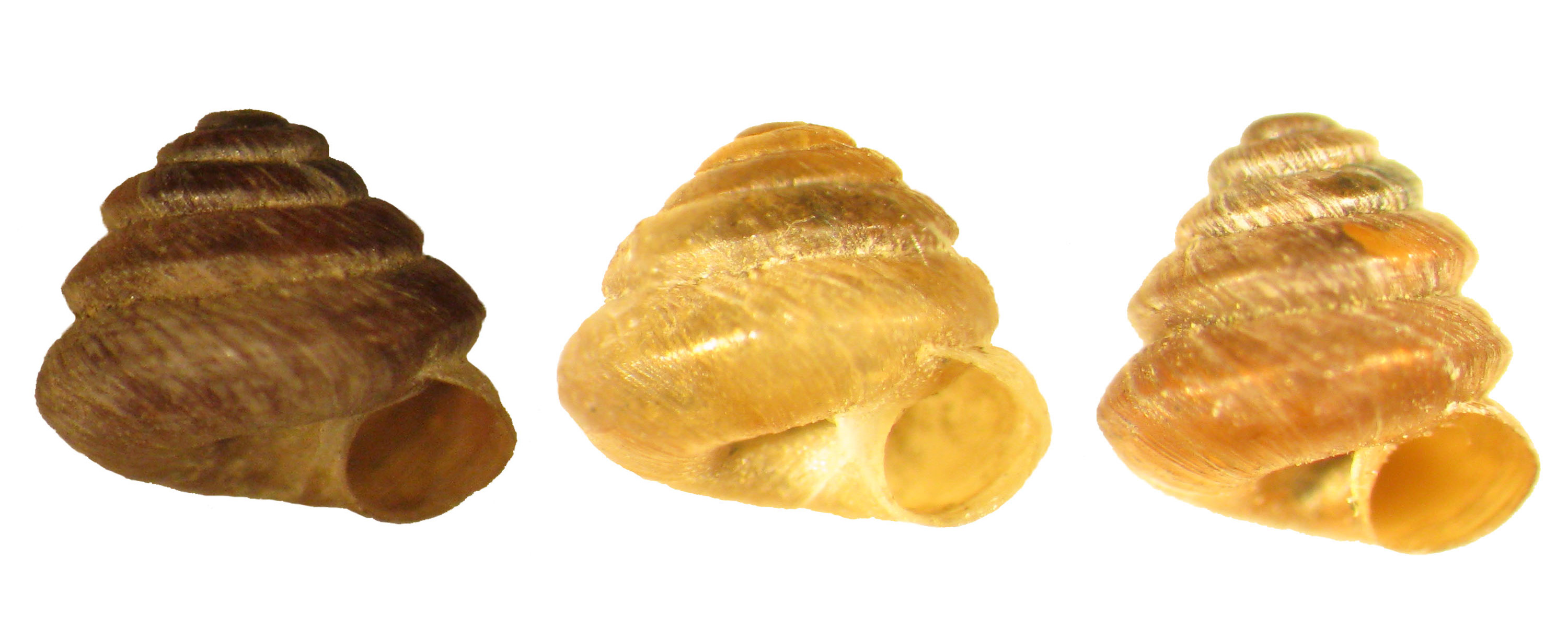 Two paratypes and holotype of Pyramidula kuznetsovi in collection of Zoological Museum of Moscow University